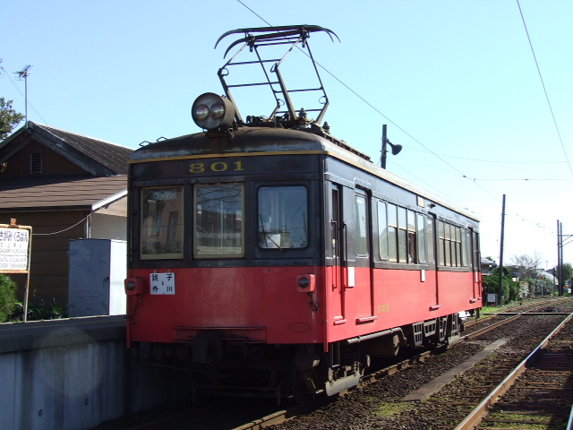 Choshi Electric Railway DeHa 801 at Kasagami-Kurohae Station